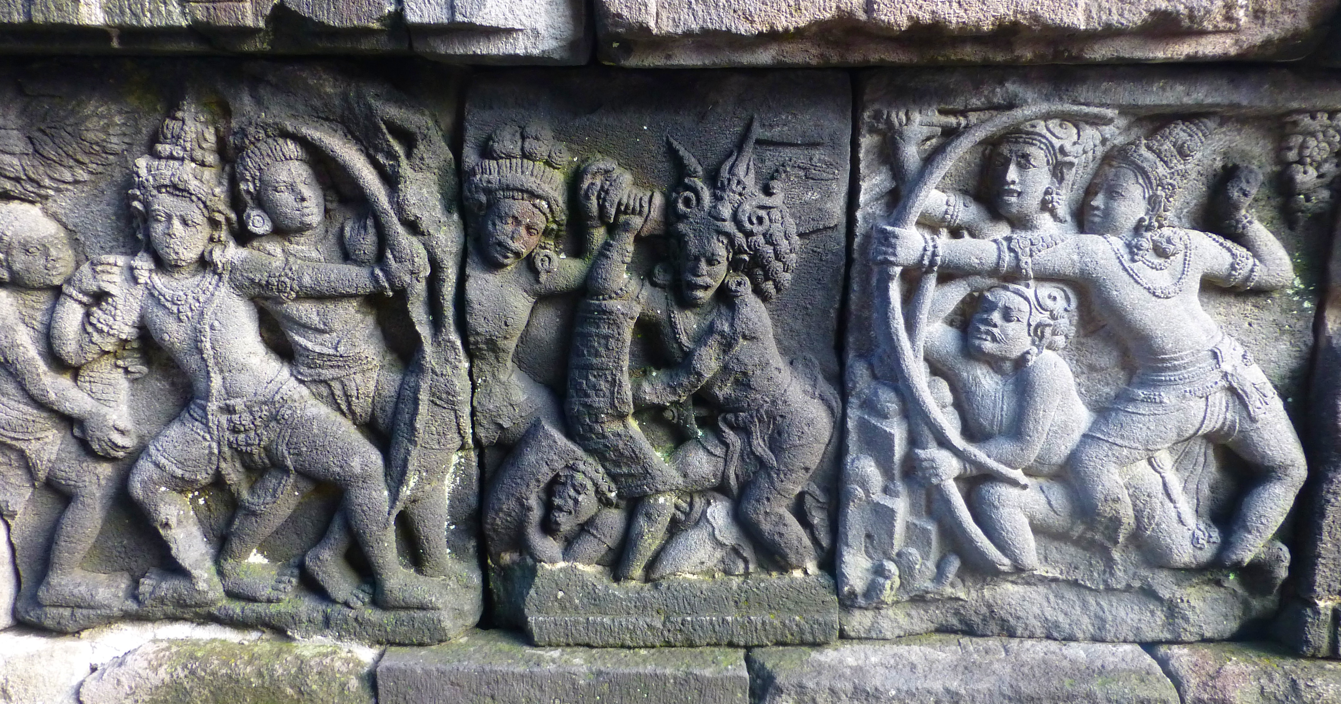 054 Fighting, Brahma Temple, Prambanan, Central Java Photograph from Prambanan temple compound near Yogyakarta in Java, Indonesia taken by Anandajoti.